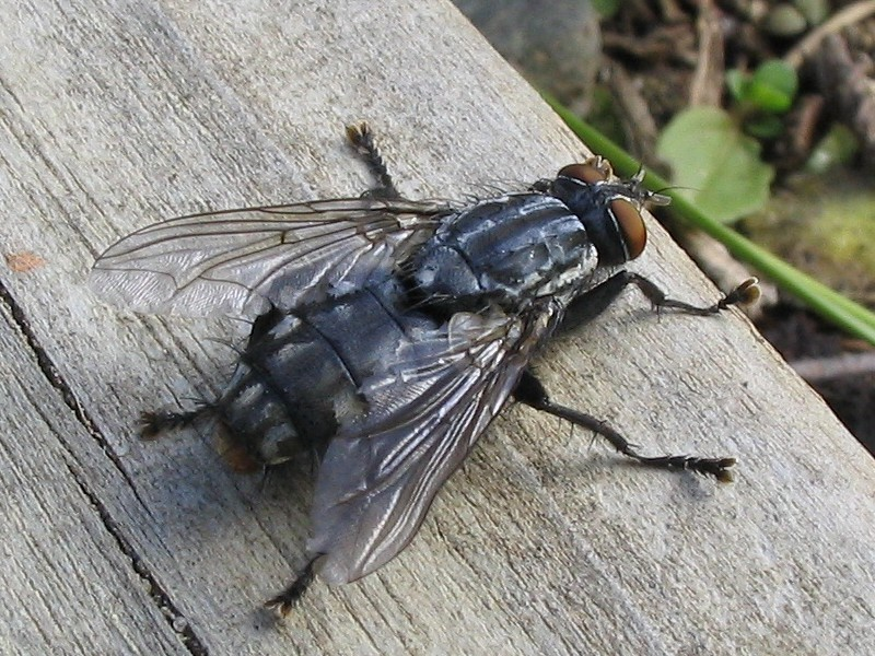 Flesh fly (Family Sarcophagidae) Photo by Gilles Gonthier. Lower Saint Lawrence region, Quebec, Canada.